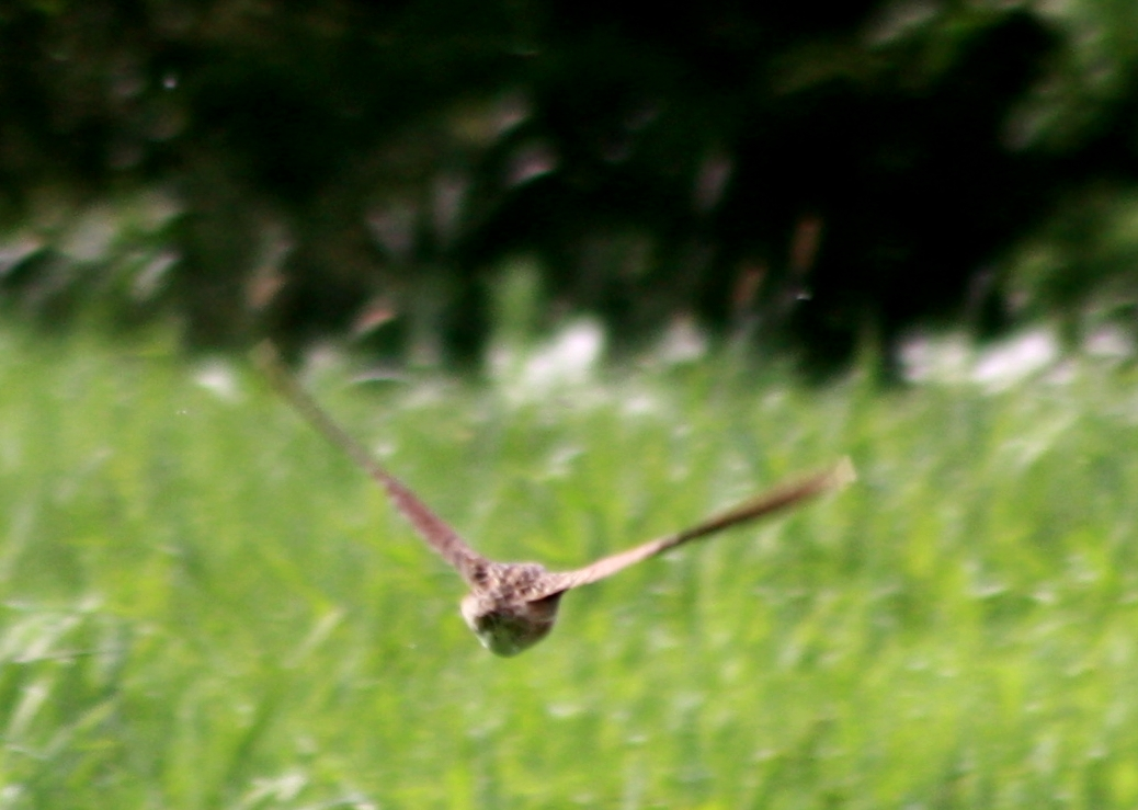 Corn Crake (crex crex) April 28, 2010